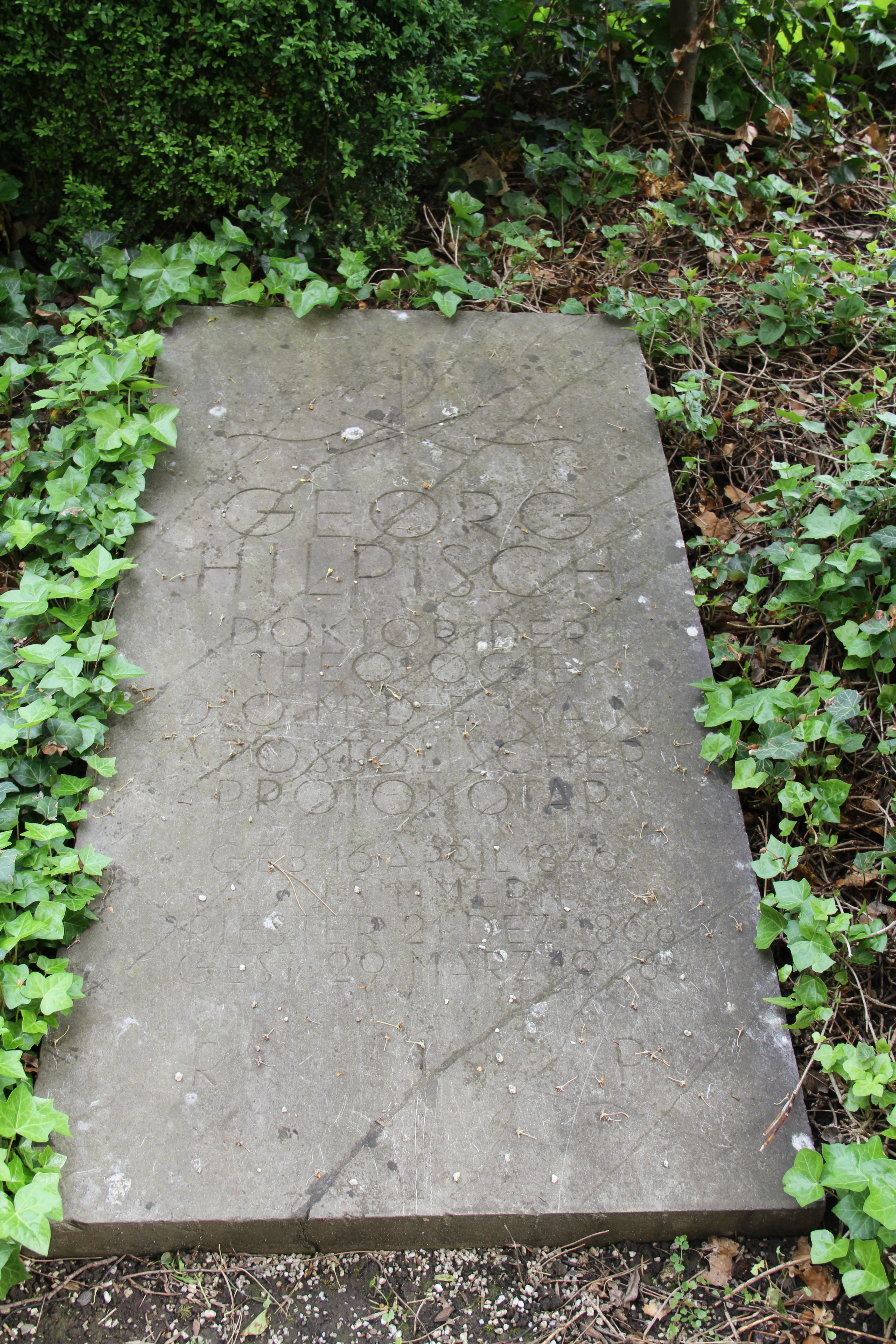 Grablege der Domherren on the former cemetary next to the Limburg Cathedral